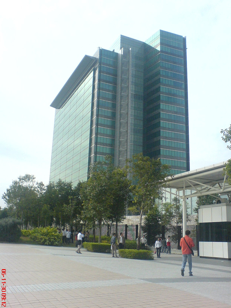 the R&D building of Huawei Technology in Shenzhen, China.